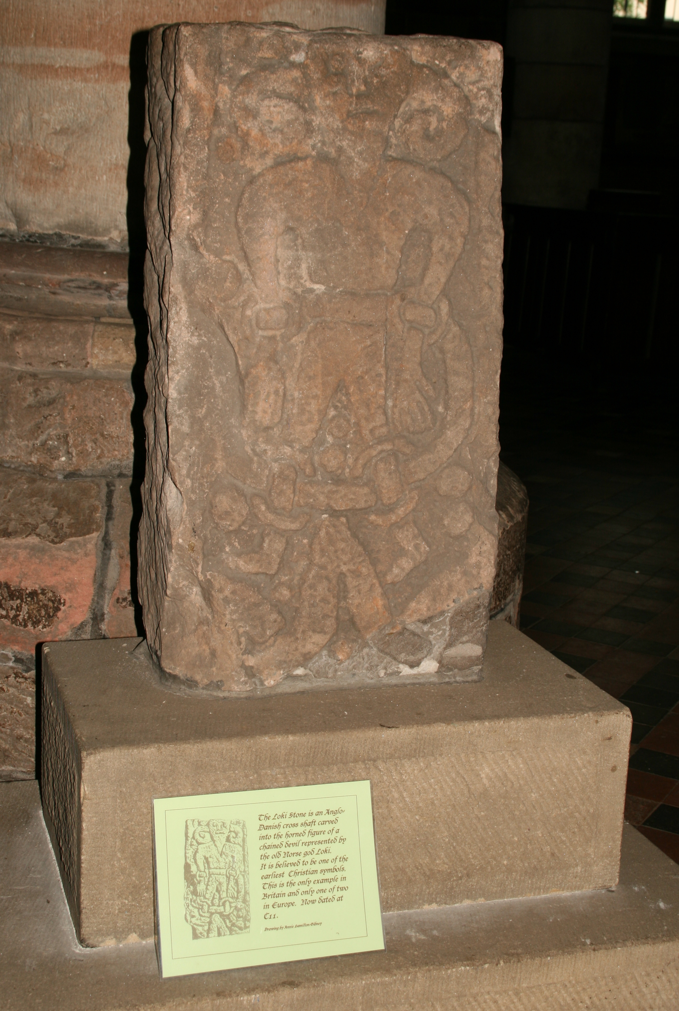 Loki Stone in the church of Kirkby Stephen, England.